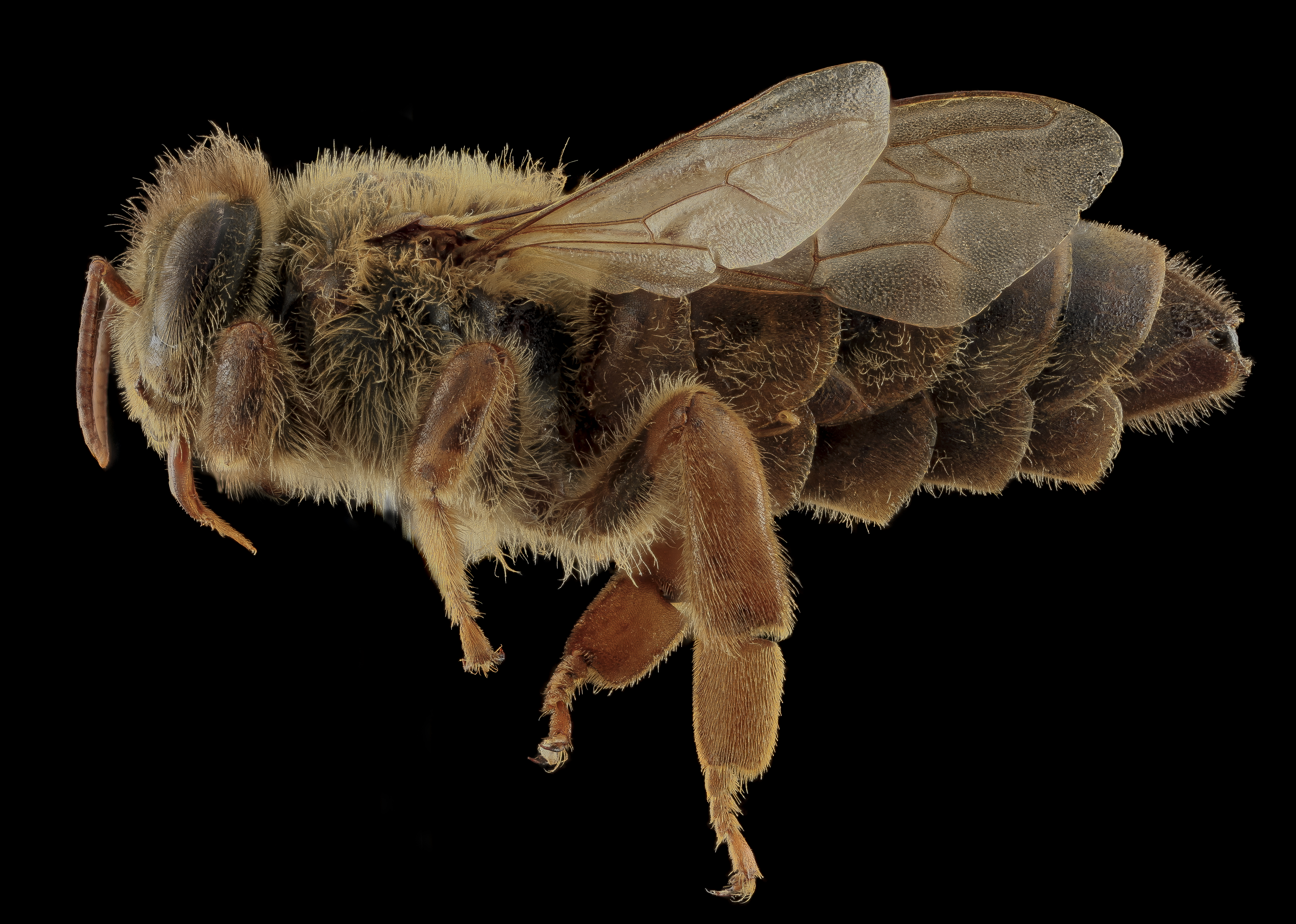 Apis mellifera, Queen Bee photo spread. Collected by Tim McMahon from a colony in Talbot County, while slightly gummy as Honeybees are want to be, this series shows the longer abdomen, the odd curly dark hairs on top of the head and the broad hind tibia, but lacking the hairs and pollen basket that the workers have.